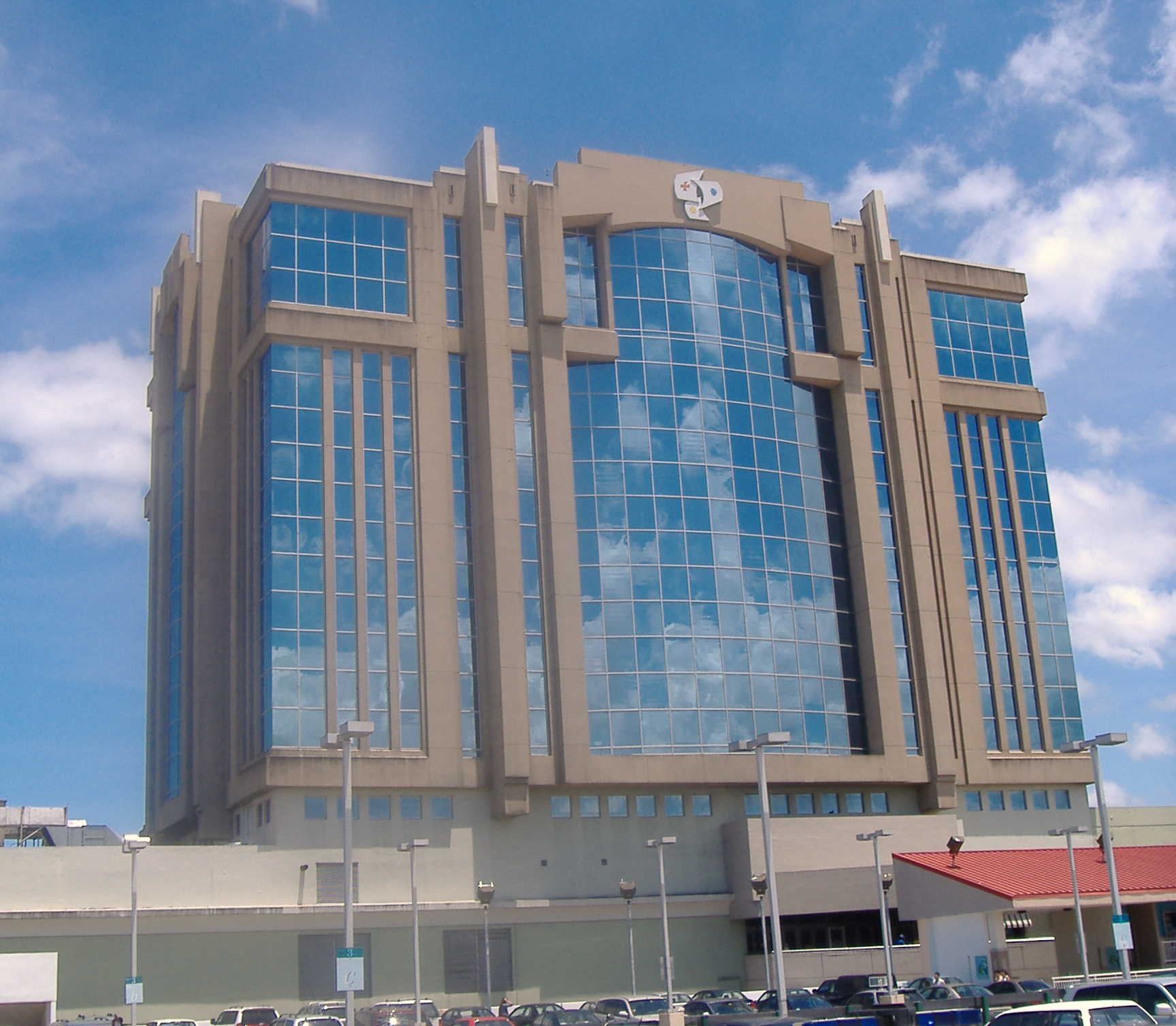 Picture of Plaza Las Americas Tower in San Juan, Puerto Rico.